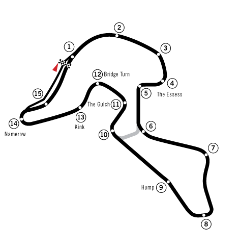 New version based on Image:Circuit Mont-Tremblant Track Map.svg. As such, the image is rotated to better show the pit area, should be more accurate, and more possible configurations are shown.